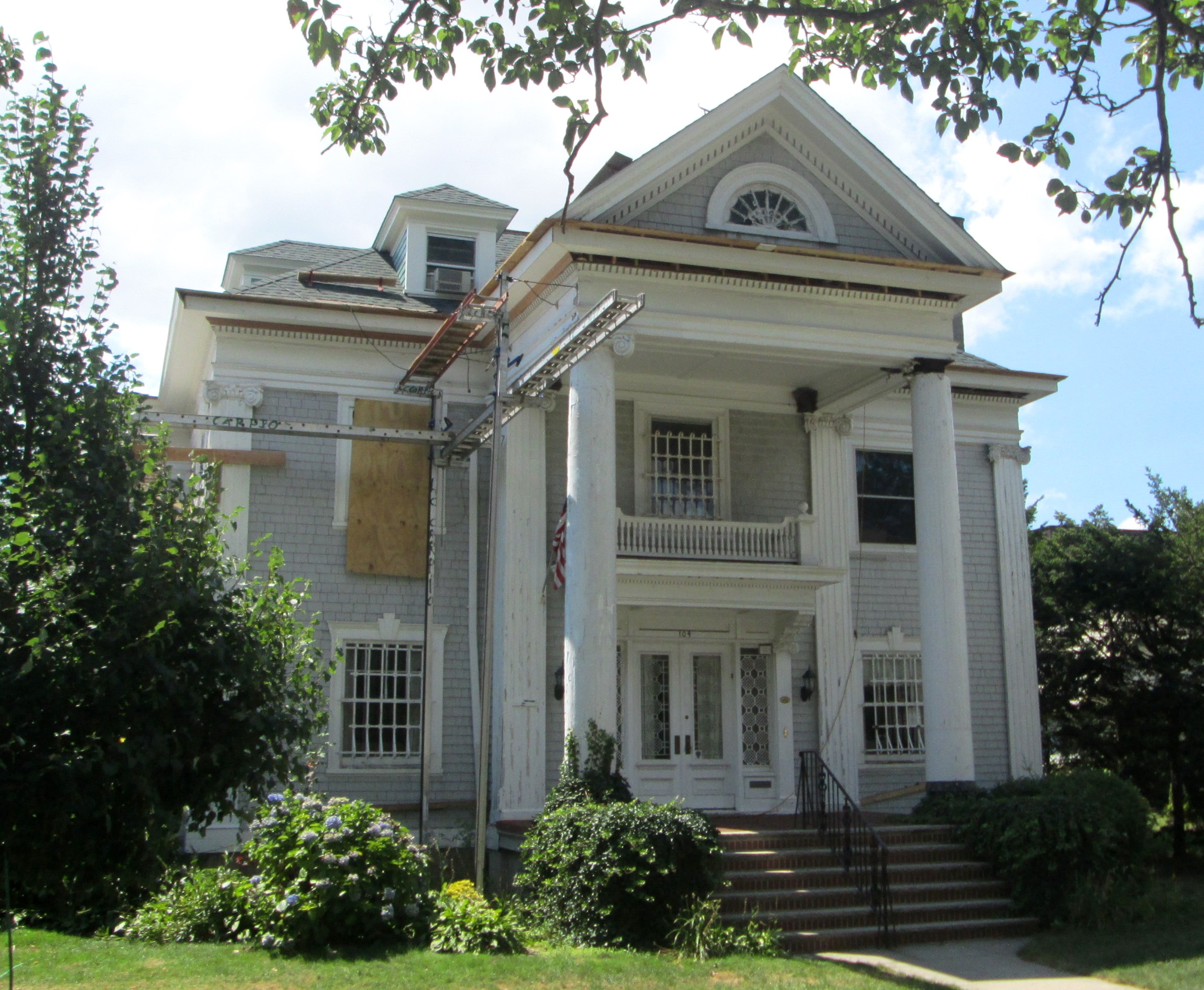 The former Rusell Benedict House at 104 Buckingham Road between Albemarle Road and Church Avenue in the Prospect Park South neighborhood of Brooklyn, New York City was built in 1902 and was designed by Crroll Pratt in the Classical Revival style. It is located in the Prospect Park South Historic District. (Source: "Prospect Park South Historic District Designation Report")